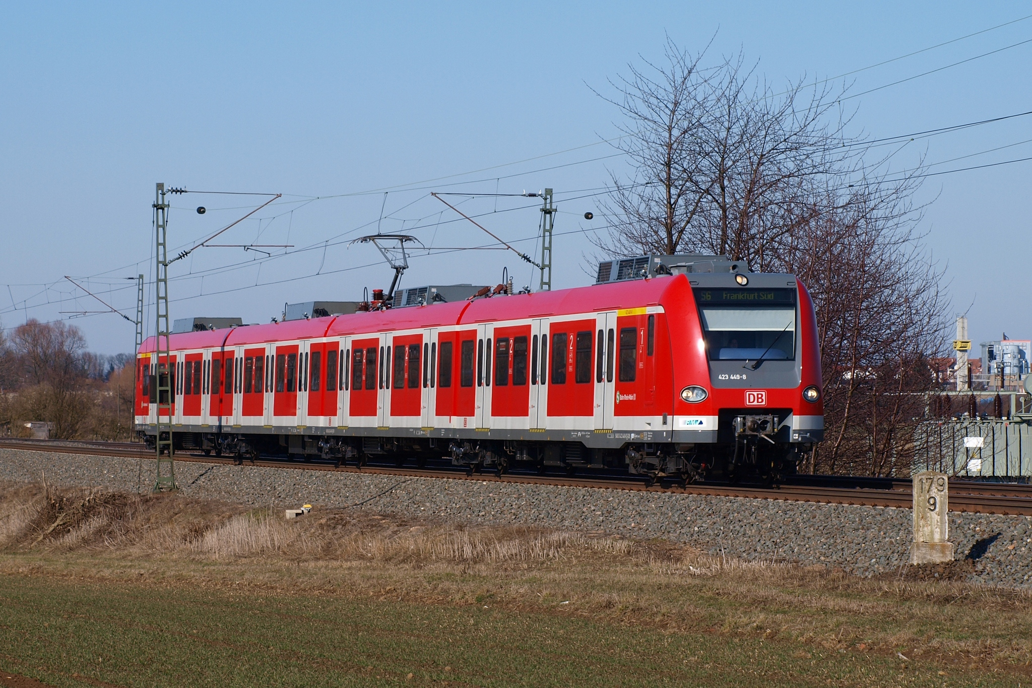 423 449 is one of the newest units of Class 423.